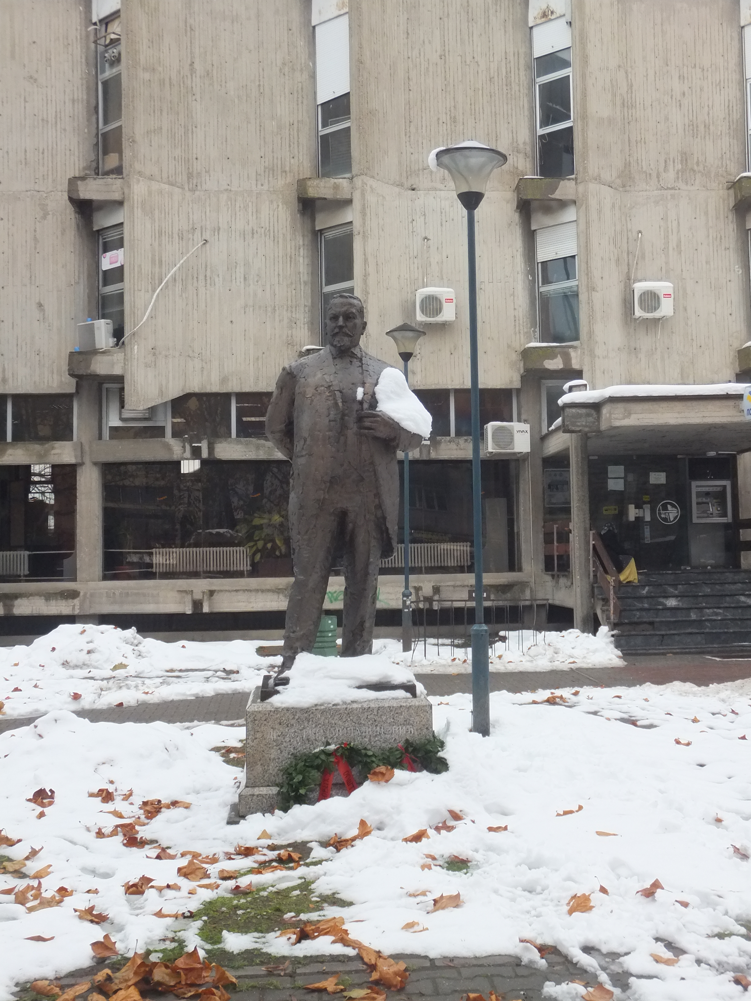 Monument of Žarko Miladinović in Ruma